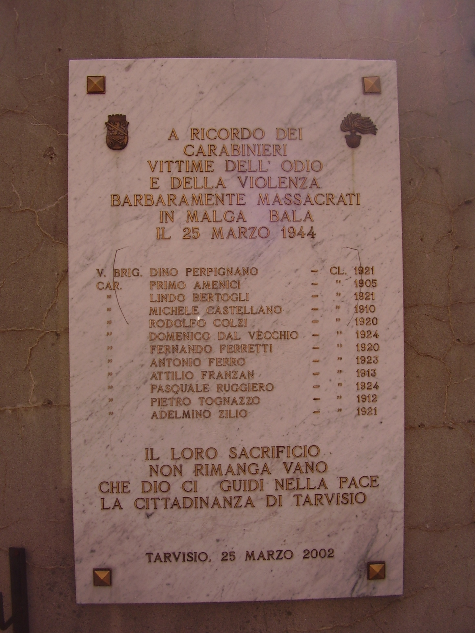 Plaque honoring the RSI "carabinieri" (Italian military police) killed by Slovenian communist partizans in Malga Bala (Tarvisio) on March 25 1944.